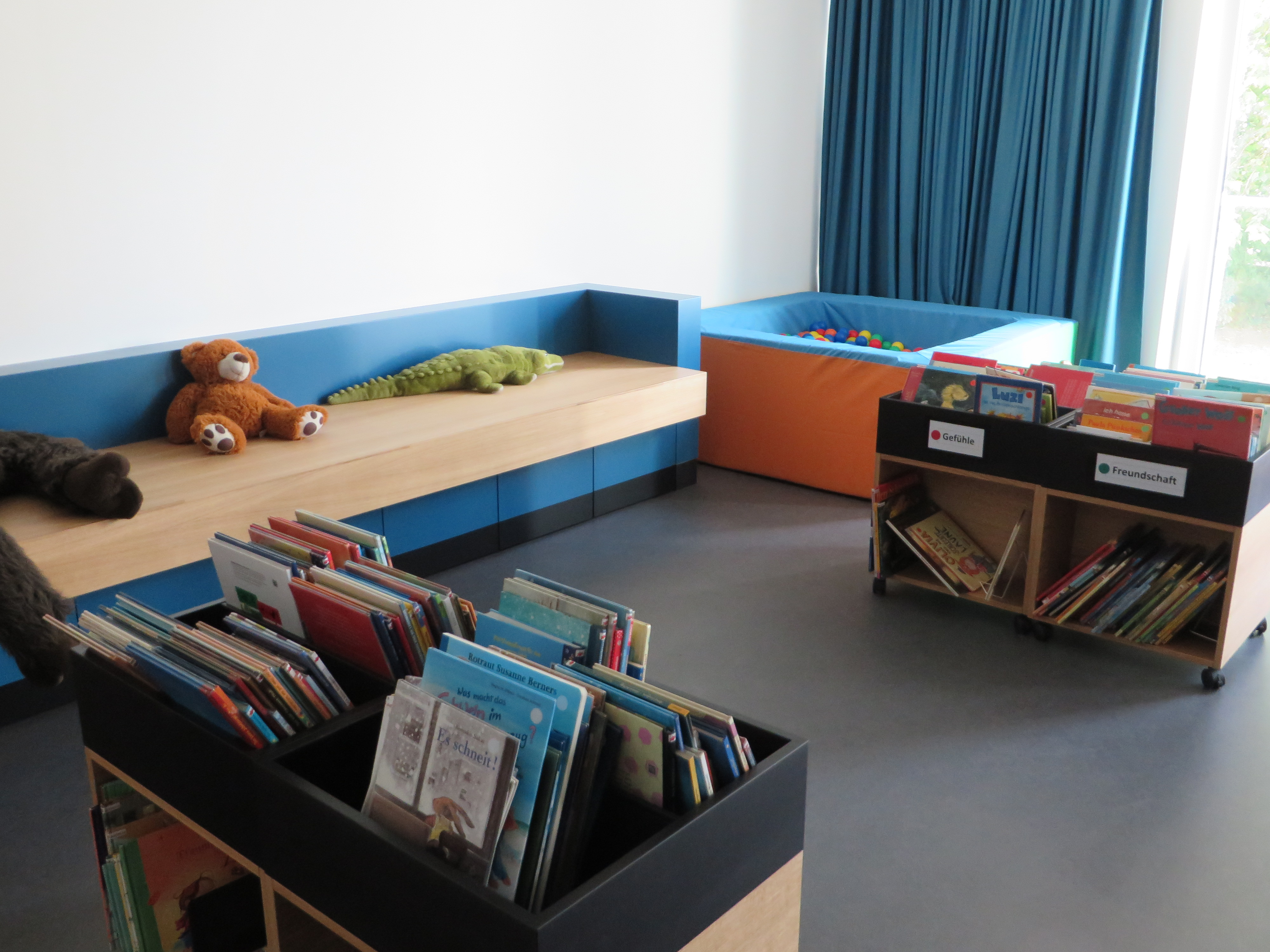 Children's library at Zentralbibliothek Witten, Germany